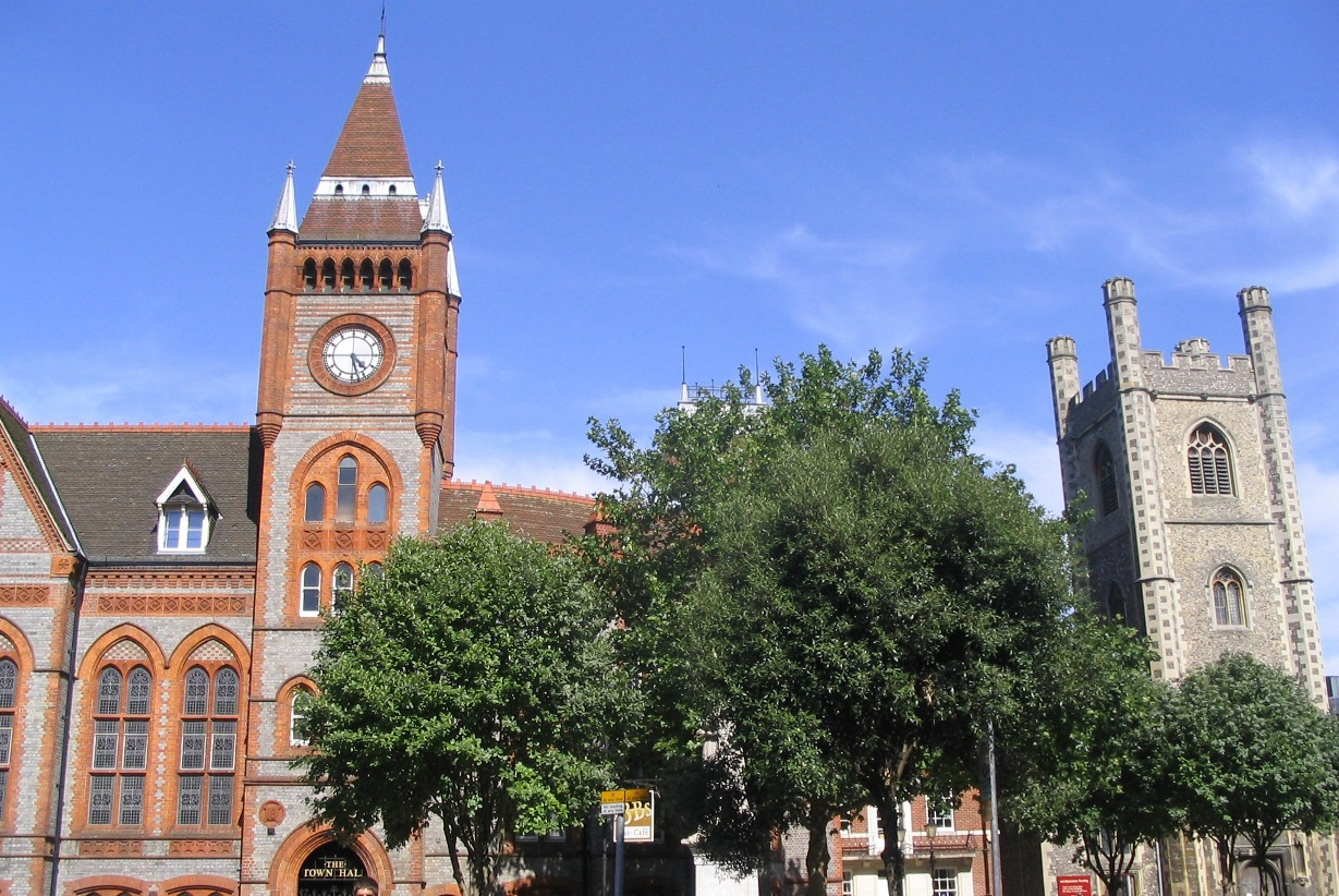 Town Hall of Reading, Berkshire (England).